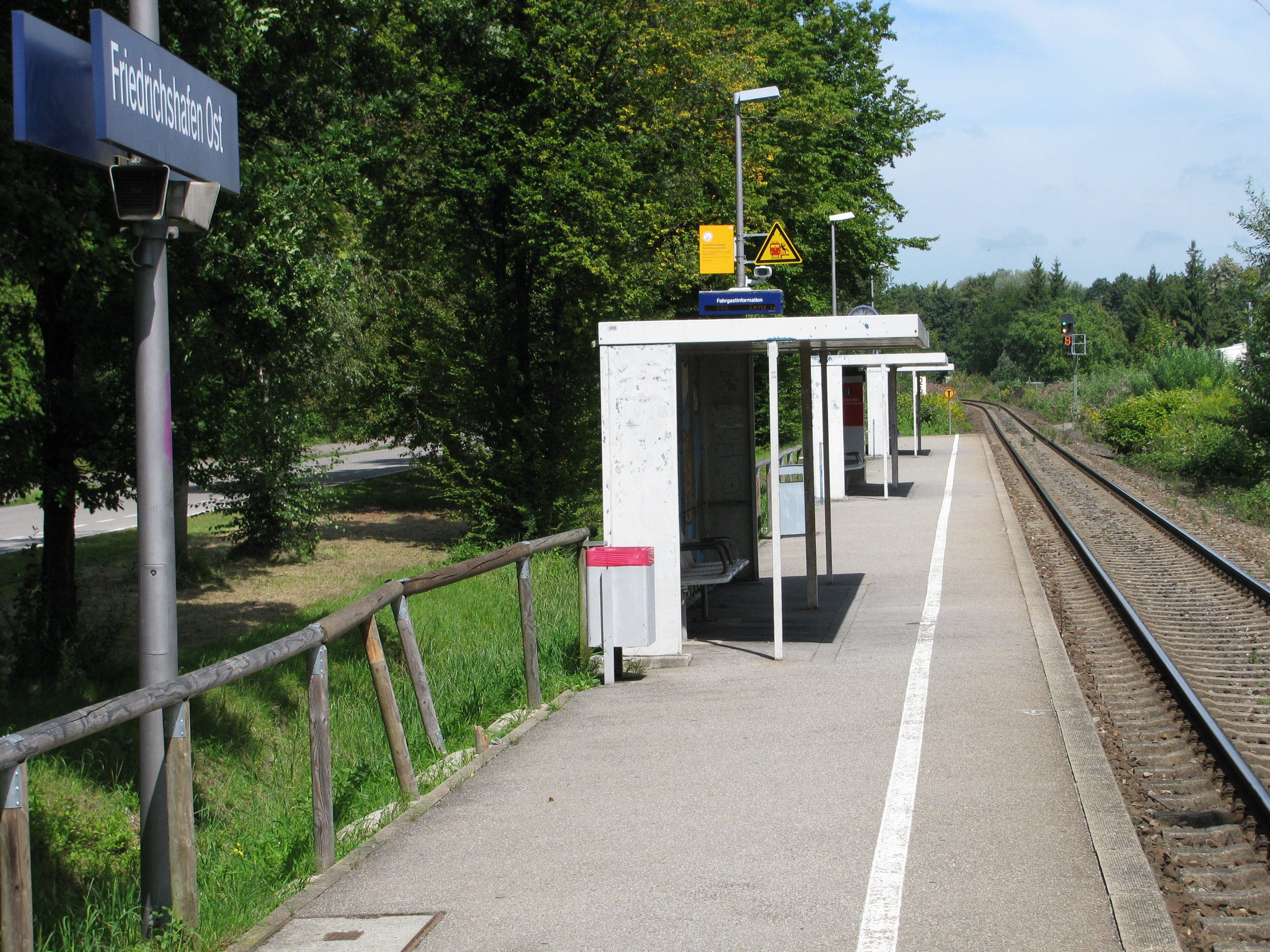 Germany - Baden-Württemberg - Bodenseekreis - Friedrichshafen: 'Bodenseegürtelbahn', stop "Friedrichshafen-Ost"